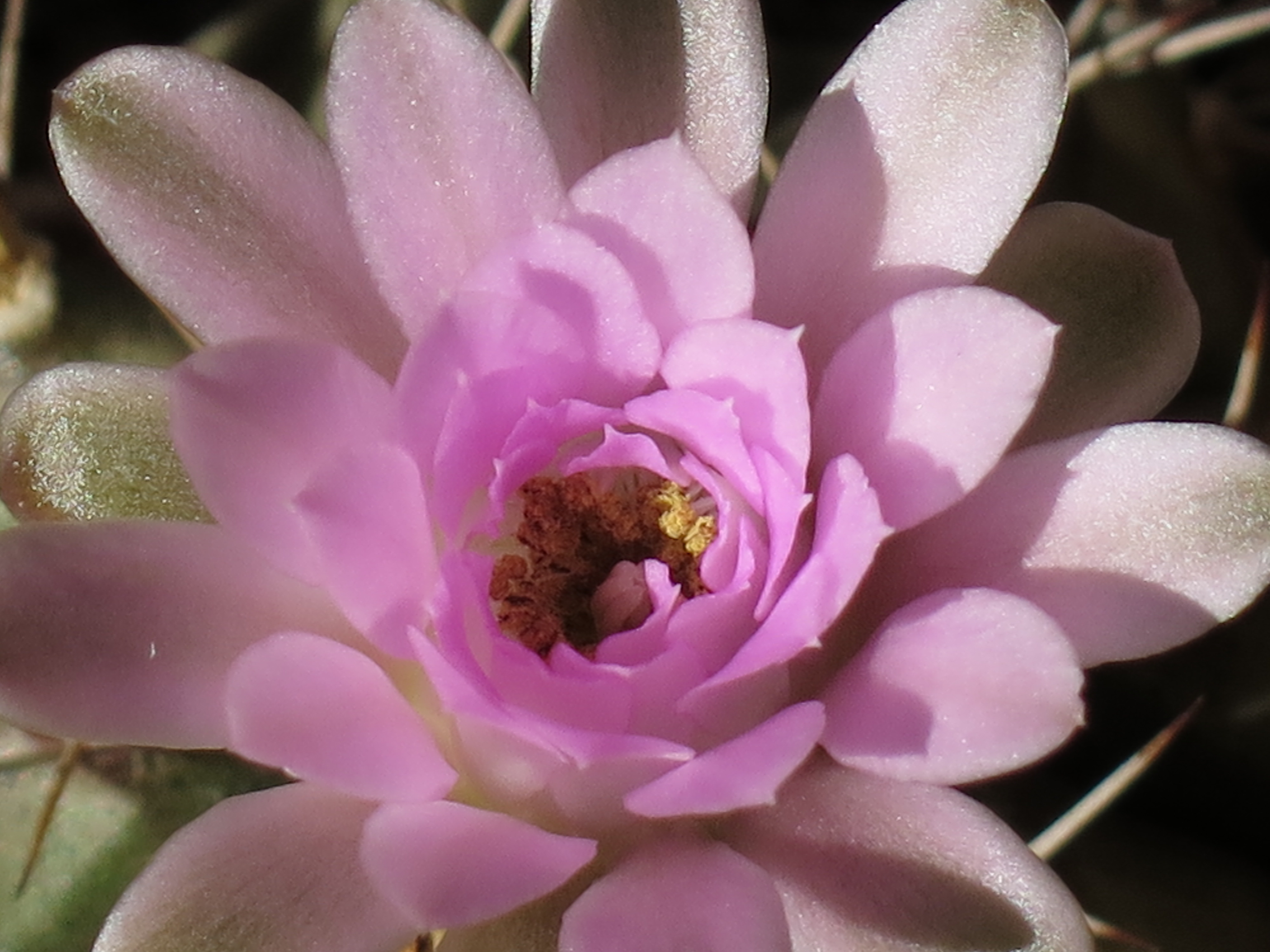 Flower of gymnocalycium mihanovichii - detail